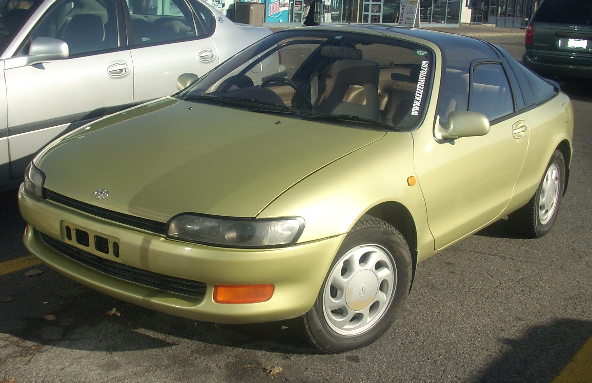 Toyota Sera photographed in Montreal, Quebec, Canada.